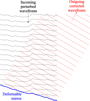 Diagram demonstrating the use of a deformable mirror to correct for wavefront errors.